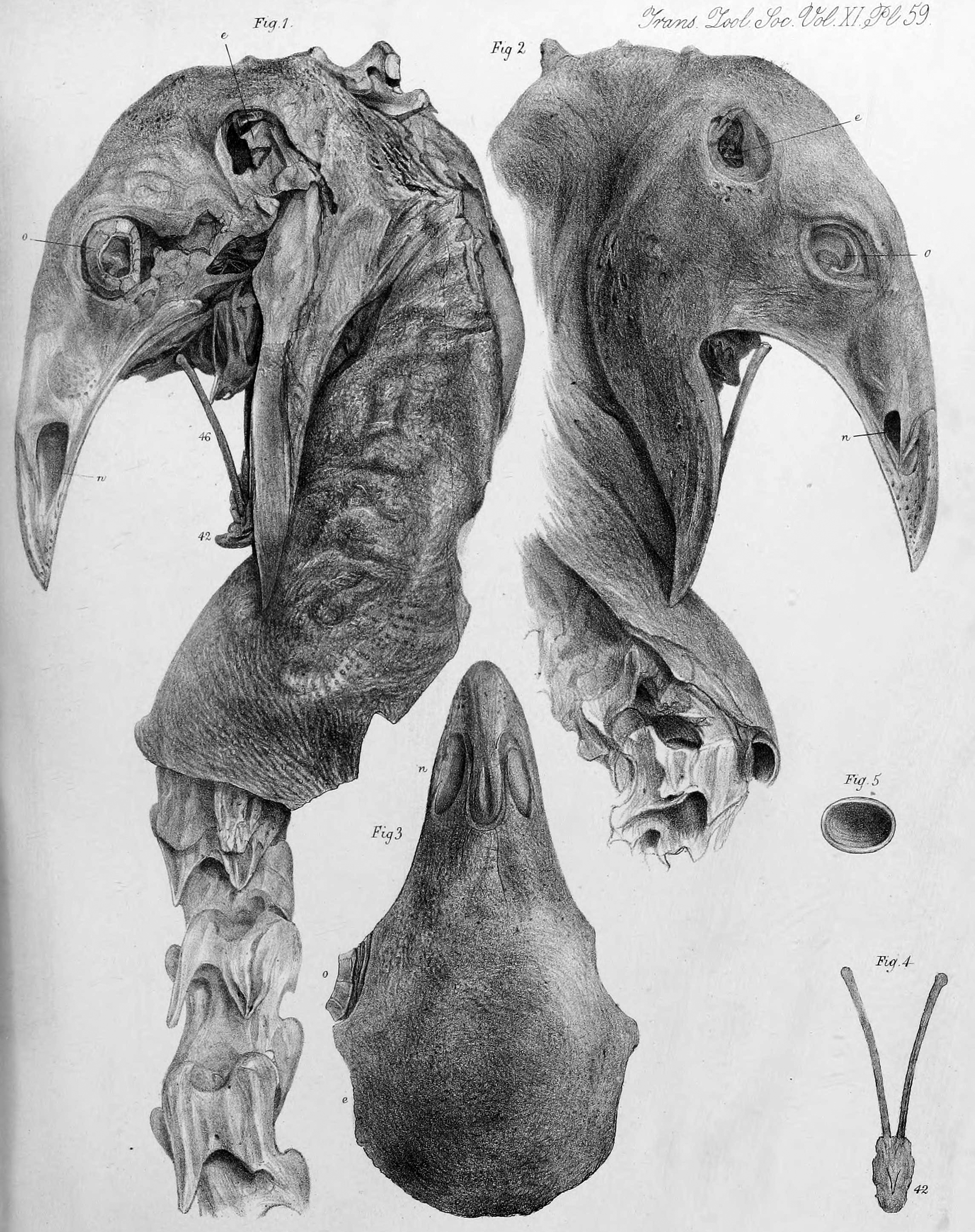 (Lesser) Megalapteryx didinus (moa) head.